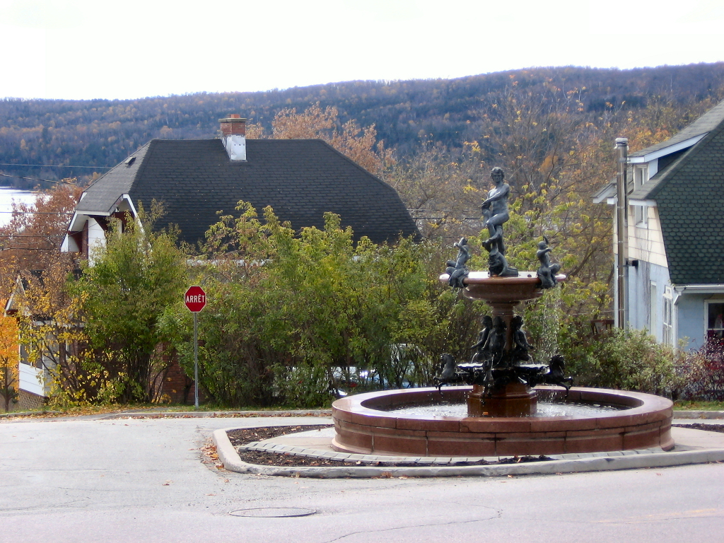 Fountain in Temiskaming, 2006.